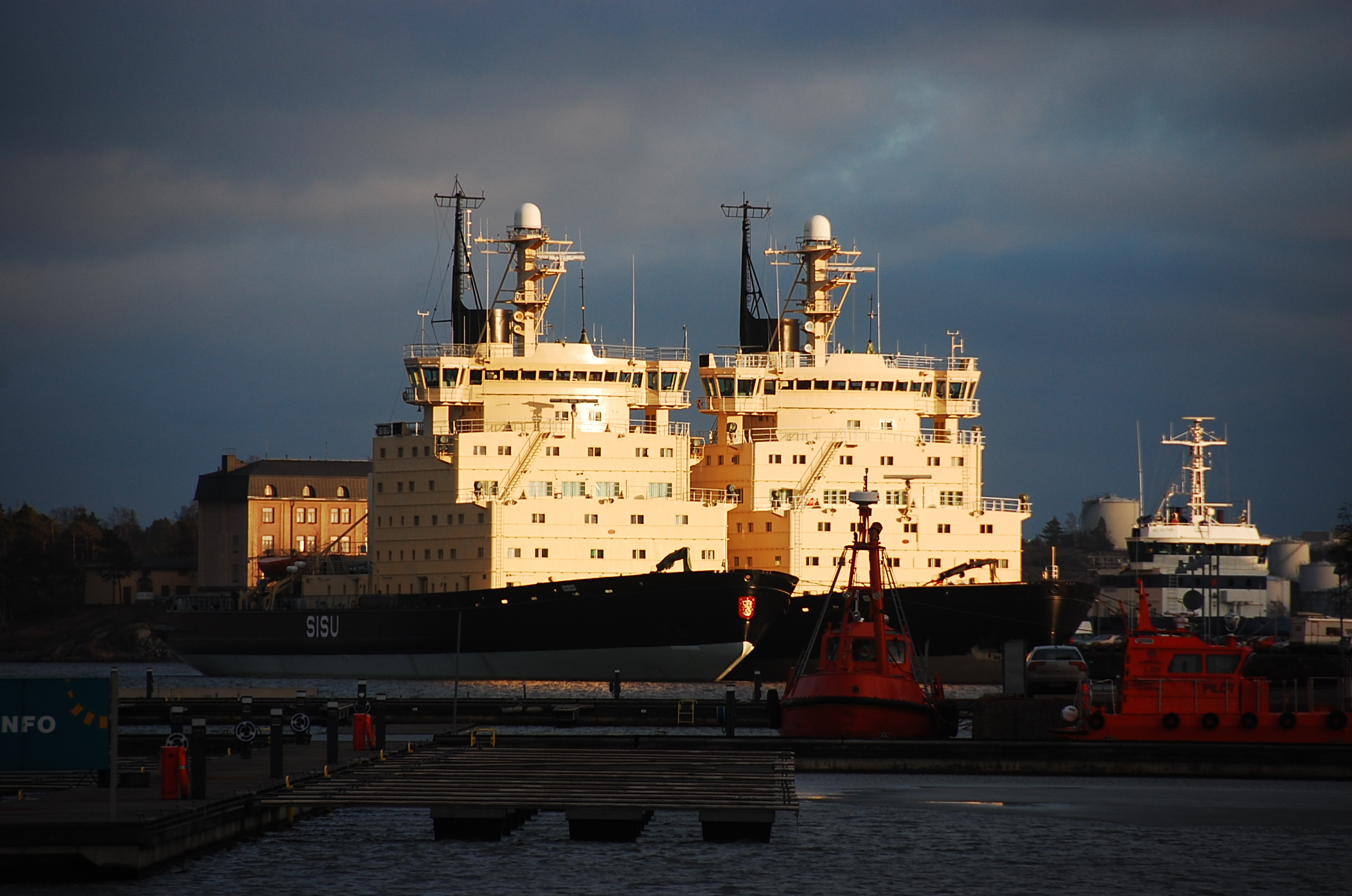 Finnish icebreakers Sisu and Urho